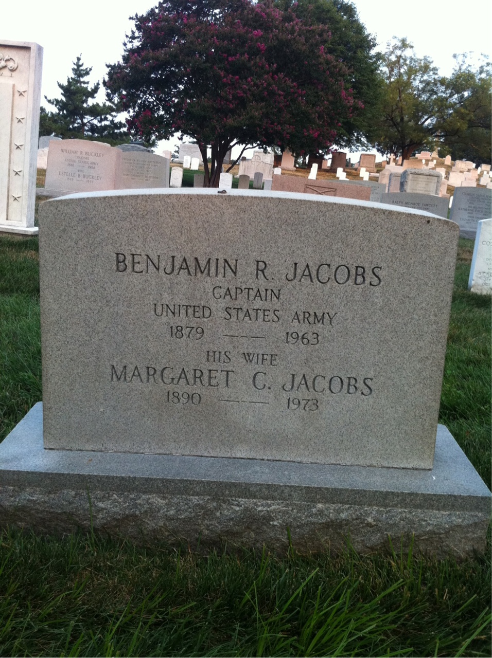 Grave of Benjamin R. Jacobs at Arlington National Cemetery